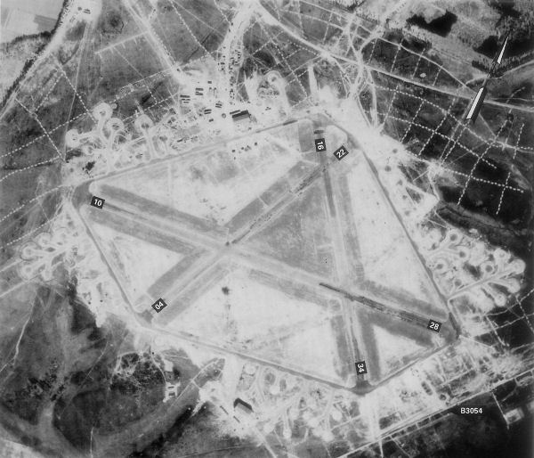 Aerial photograph of Beaulieu Airfield.